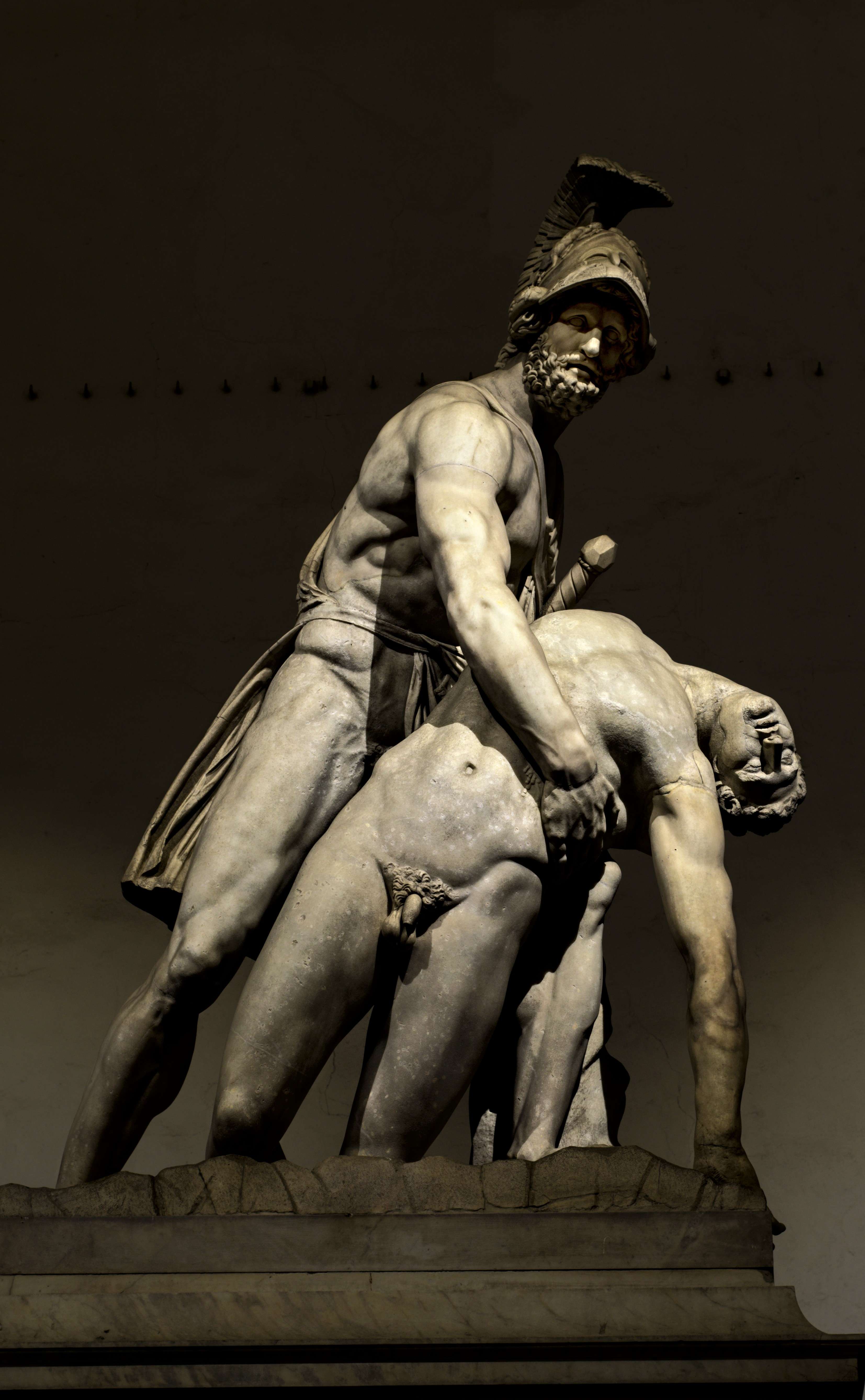 Statue Pasquino Group in Loggia dei Lanzi